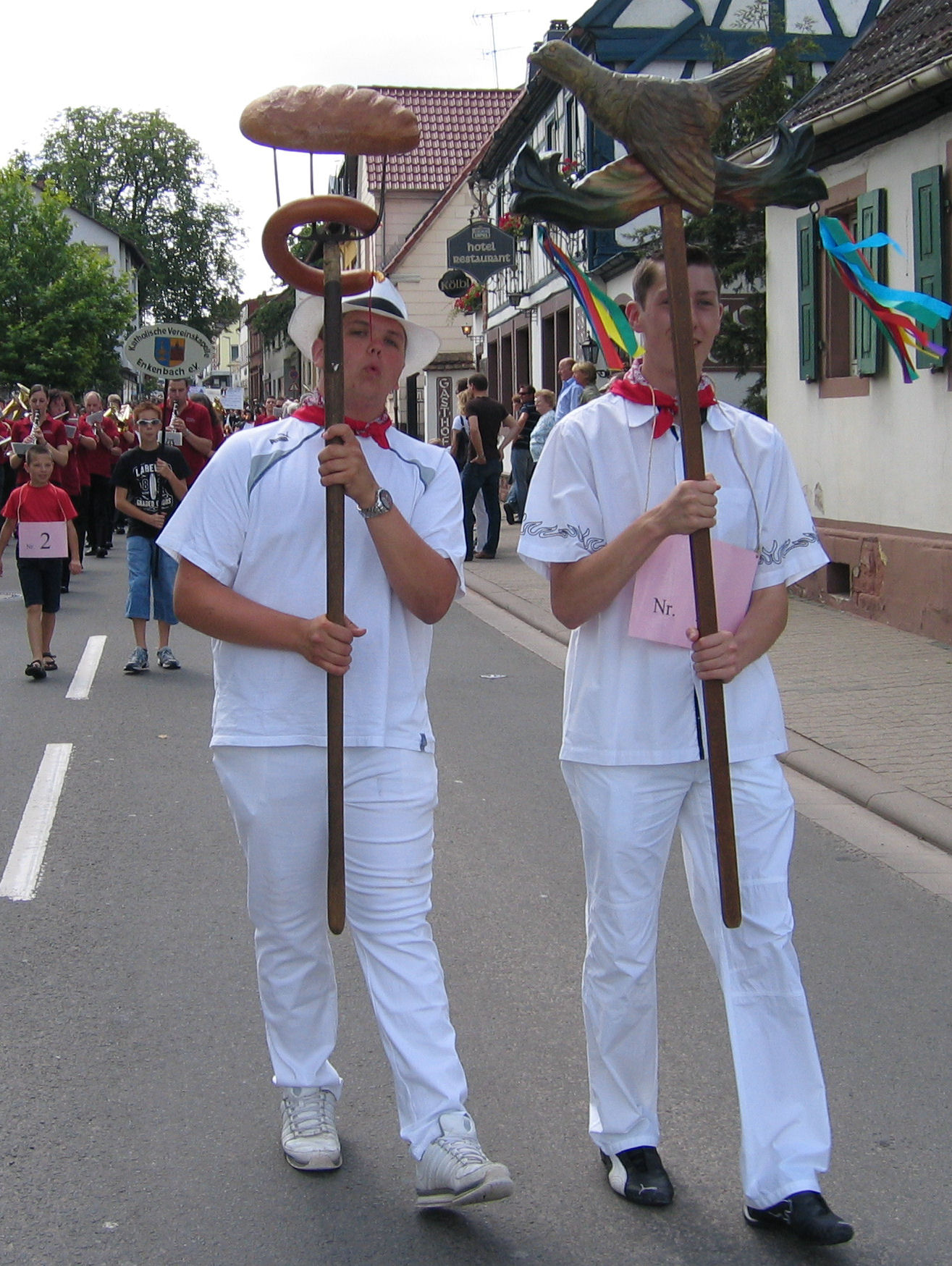 view of Enkenbach, Germany